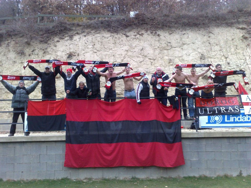 Ultras of Dorog as visitors in November of 2011